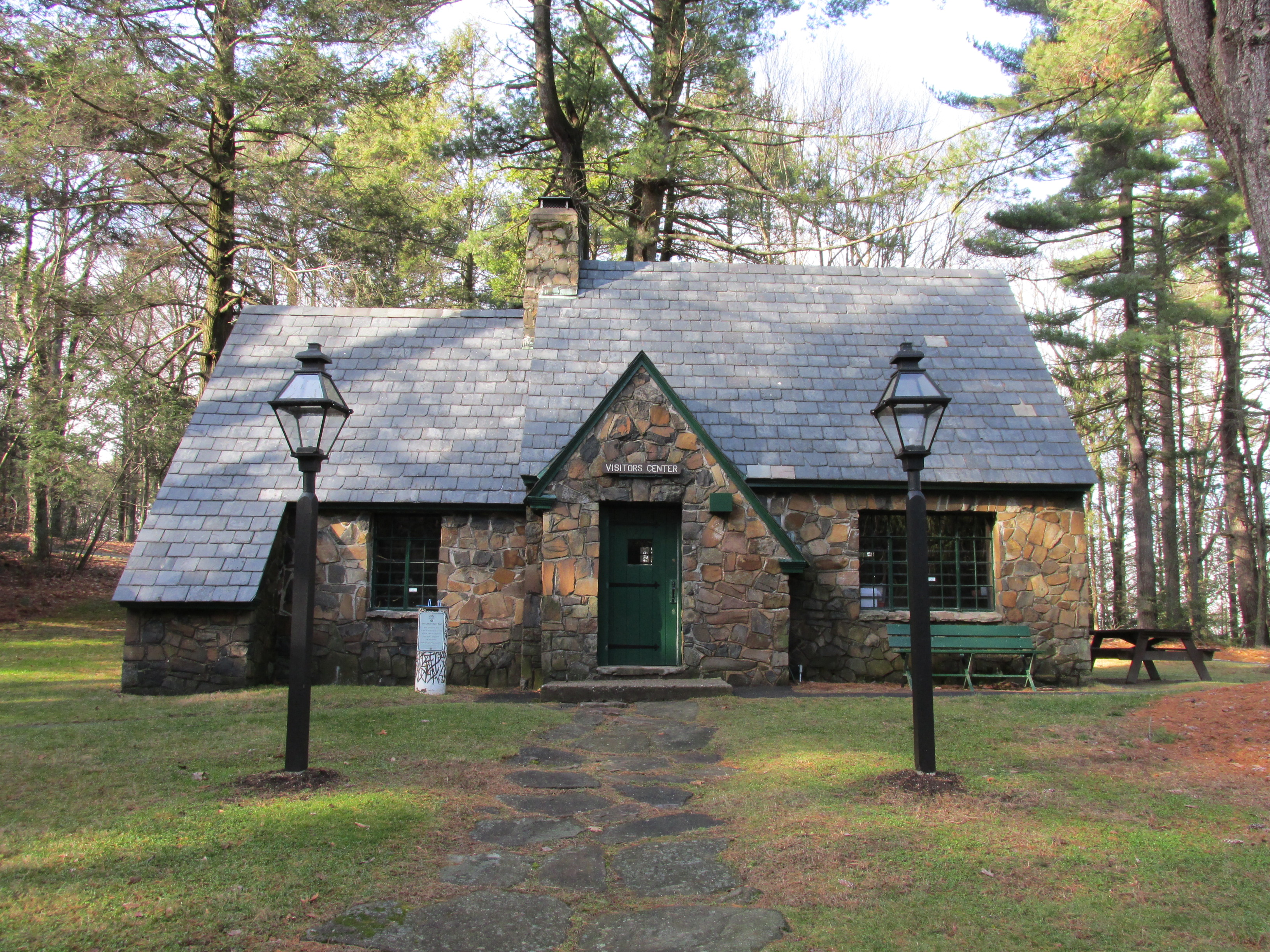 Visitor Center, Mount Tom State Reservation, Holyoke Massachusetts